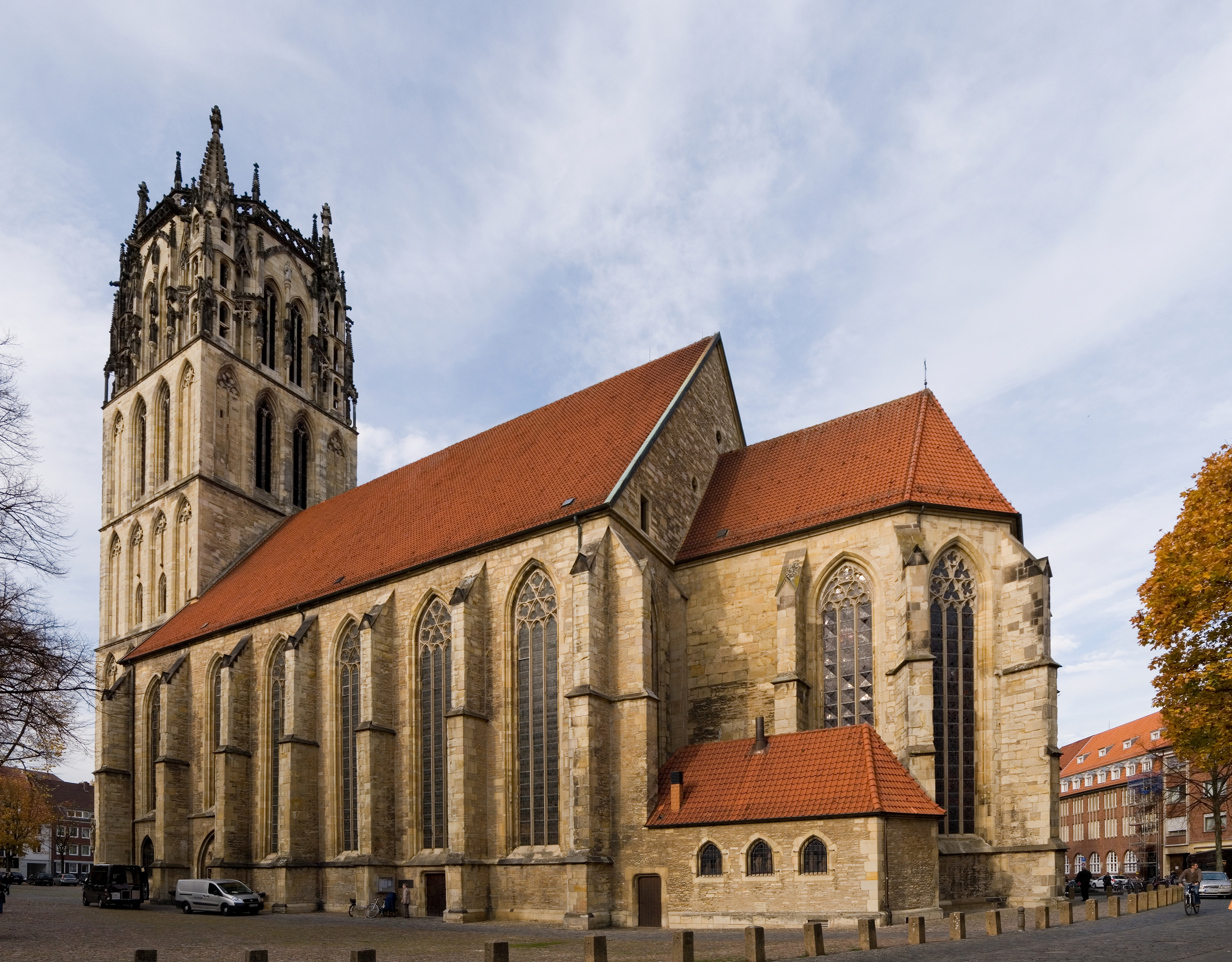 Münster (North Rhine-Westphalia, Germany) – Überwasserkirche (Church of Our Lady) – panoramic view seen from southeast This photograph was taken with a Nikon D3000